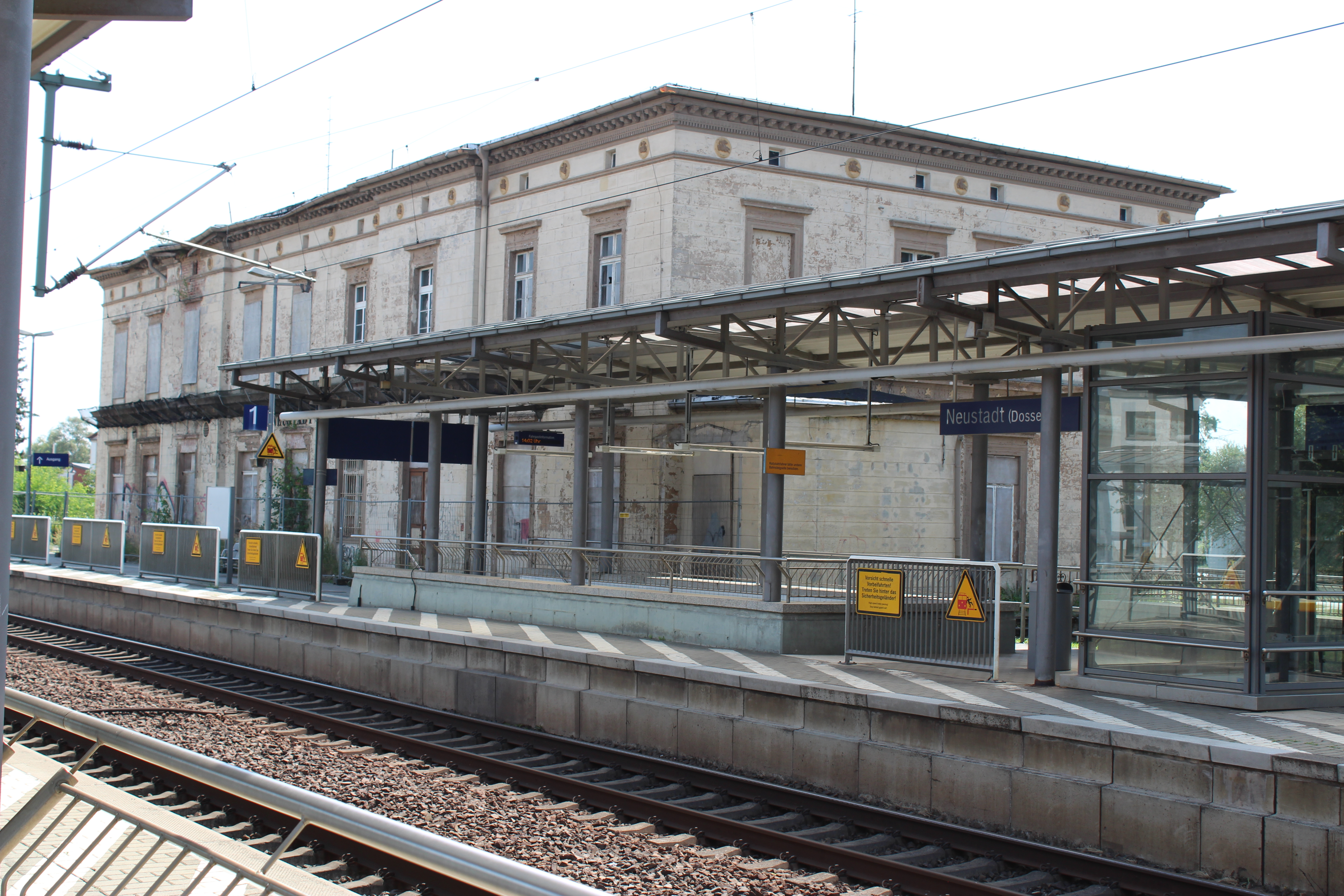 train station Neustadt (Dosse)